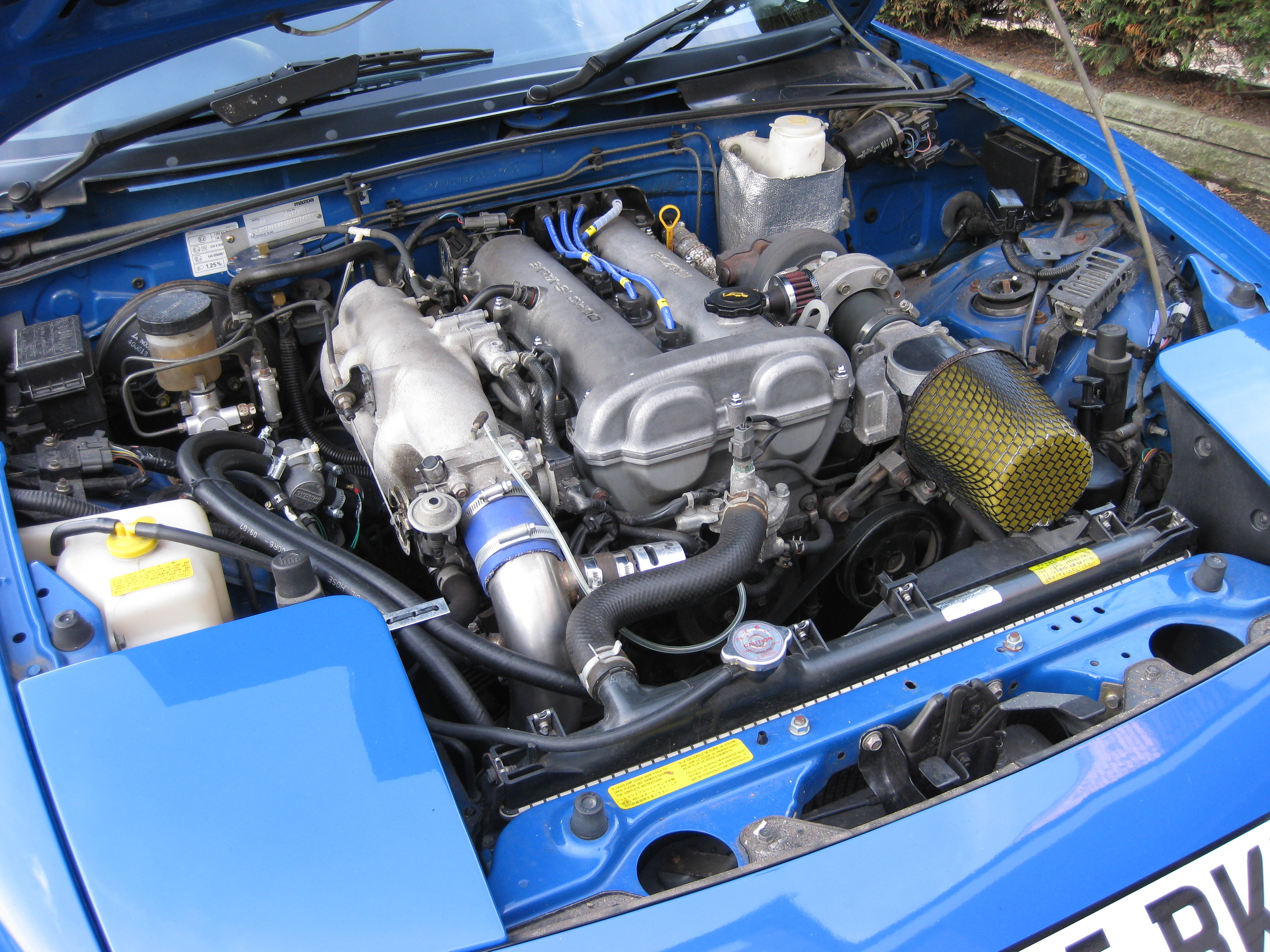 1990 mazda mx5 1.6 DOHC 4 cylinder turbo